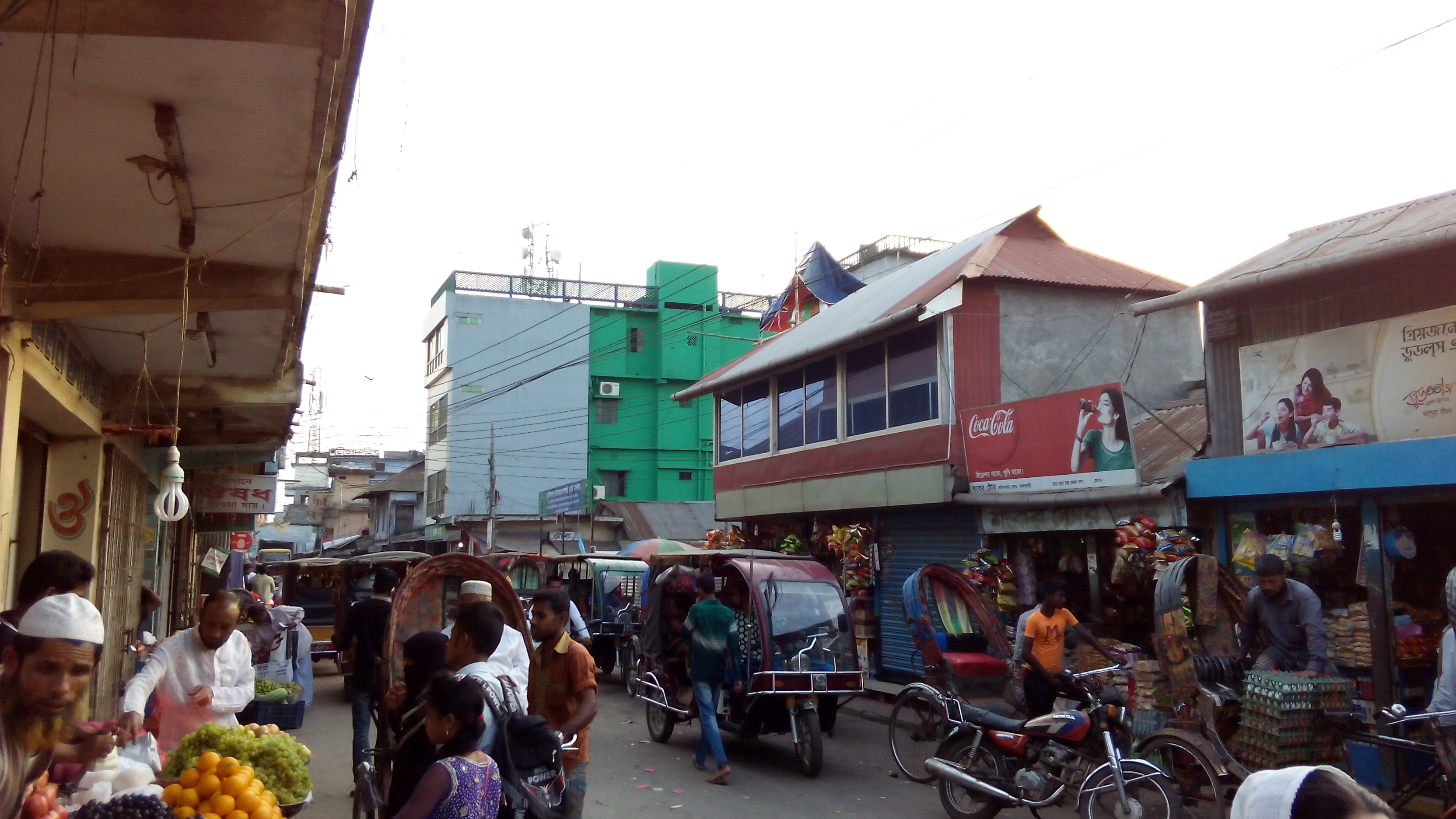 Jhalakathi is a district within Barisal Division in South-central Bangladesh. It covers an area of 758.06 km², bounded by Barisal district to the north and east. Jhalakathi is known for producing guava, hog plum, towels and shital pati.